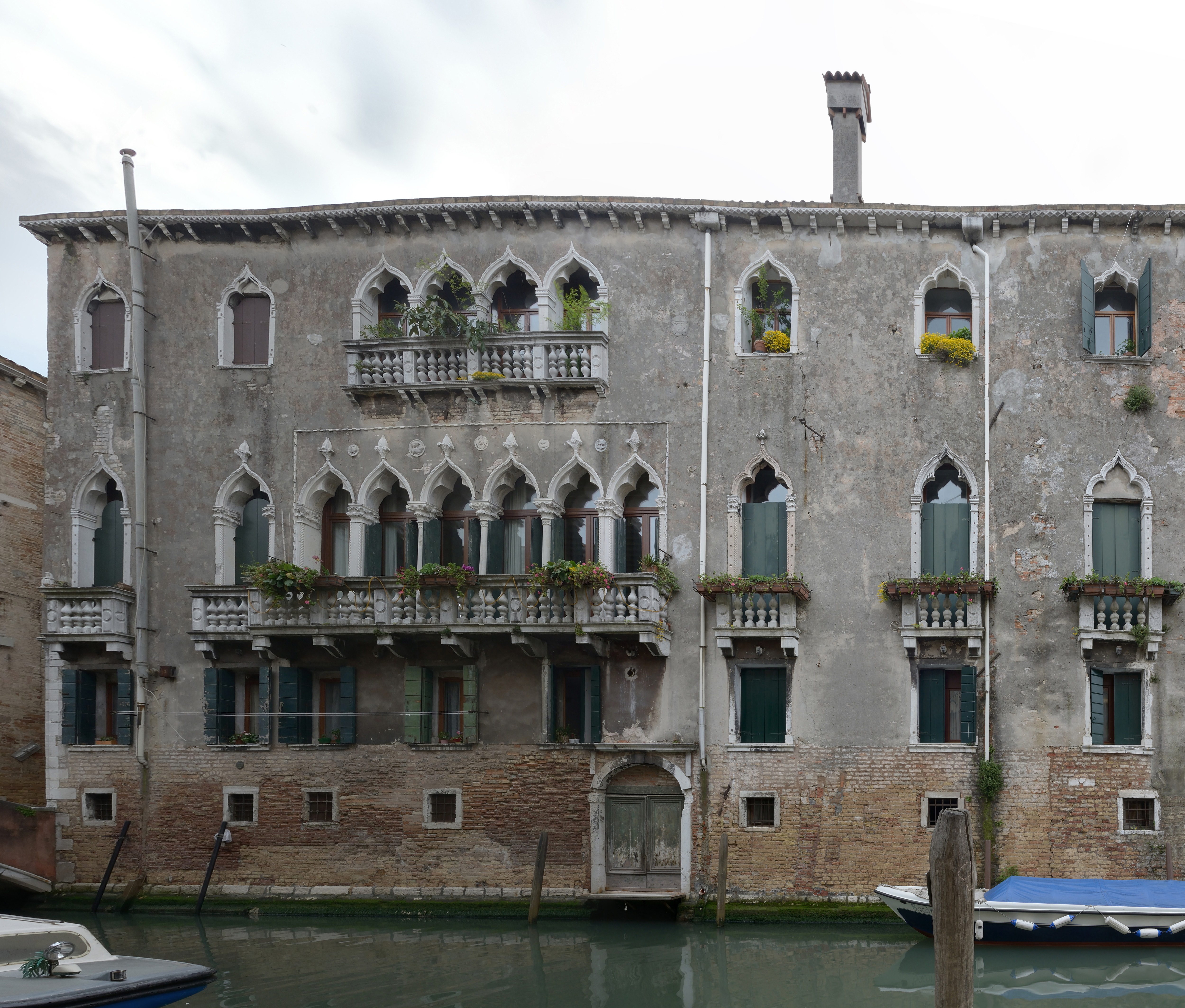 Palazzo Loredan Gheltoff western side of facade on the Rio de San Gerolamo canal in Venice. View from the ponte de l'Aseo bridge.